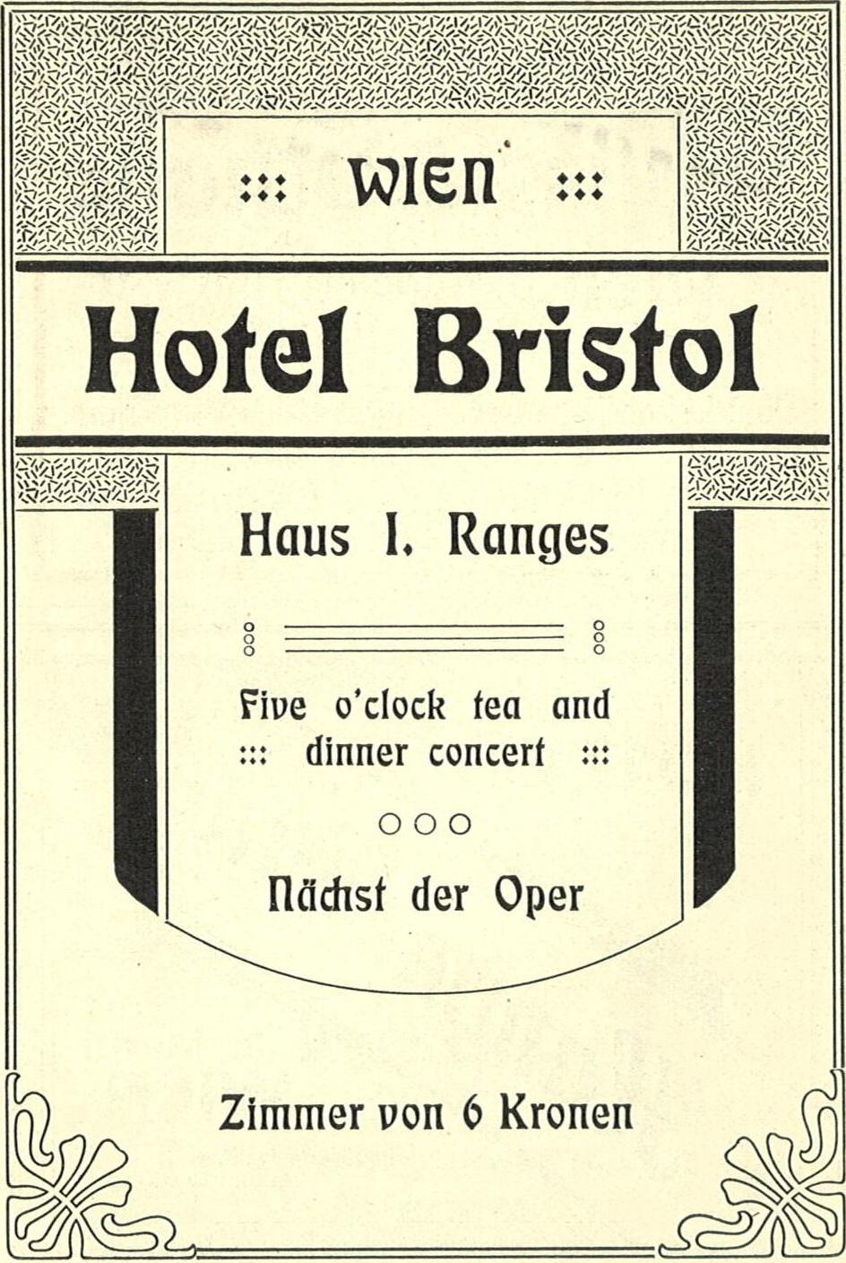 old advertisement of the Hotel Bristol in Vienna.